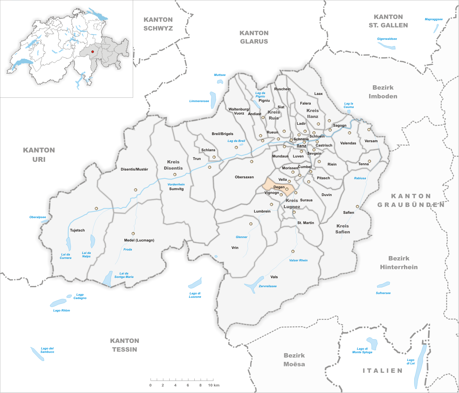 Municipality Degen